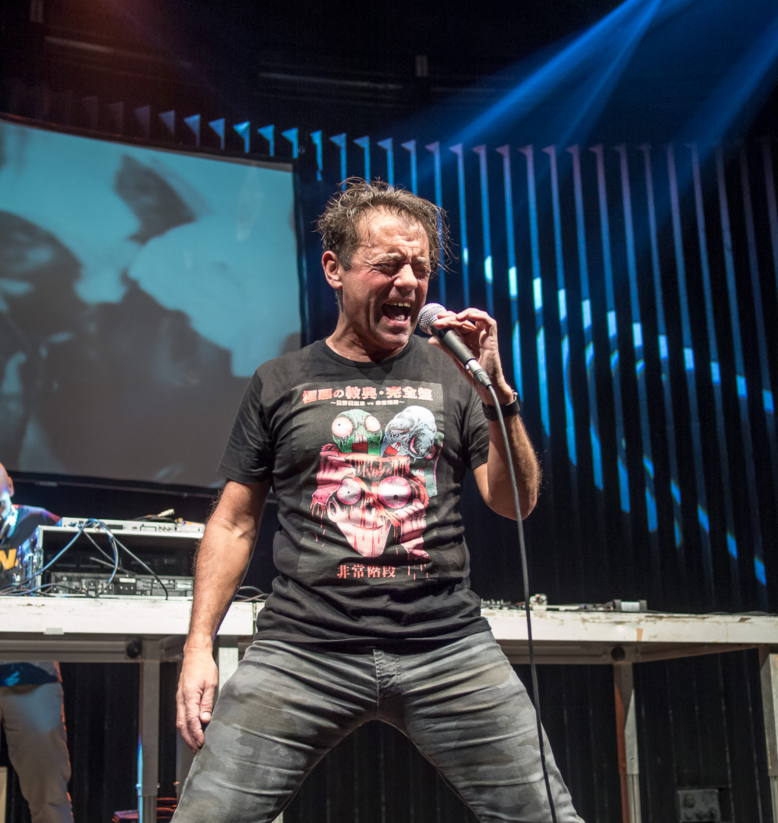 Esplendor Geométrico Zaragoza 5 Diciembre 2015